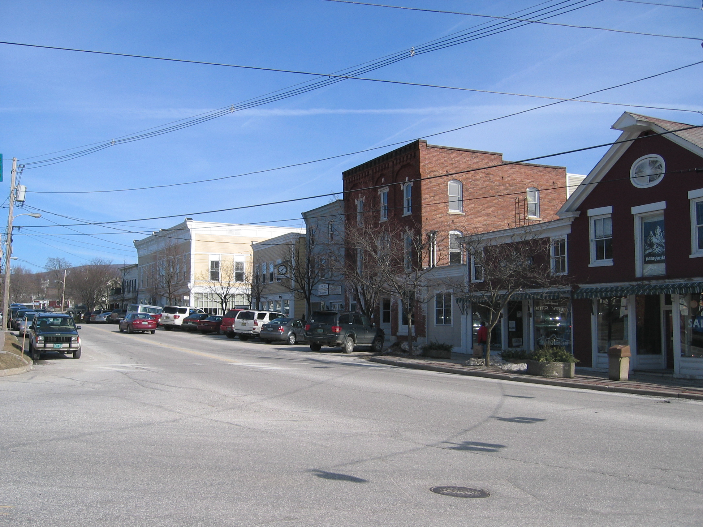 Downtown Main Street, Manchester, Vermont.